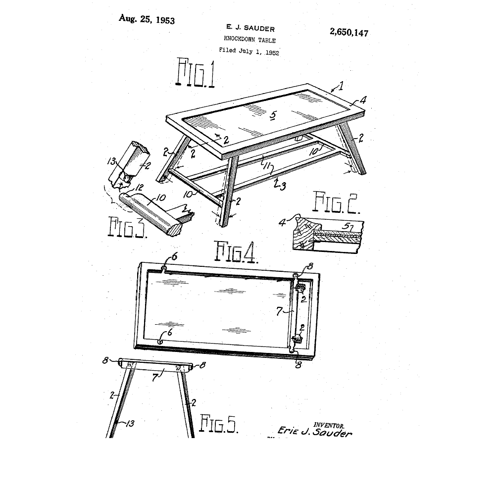 Known-down table invented by Erie J. Sauder